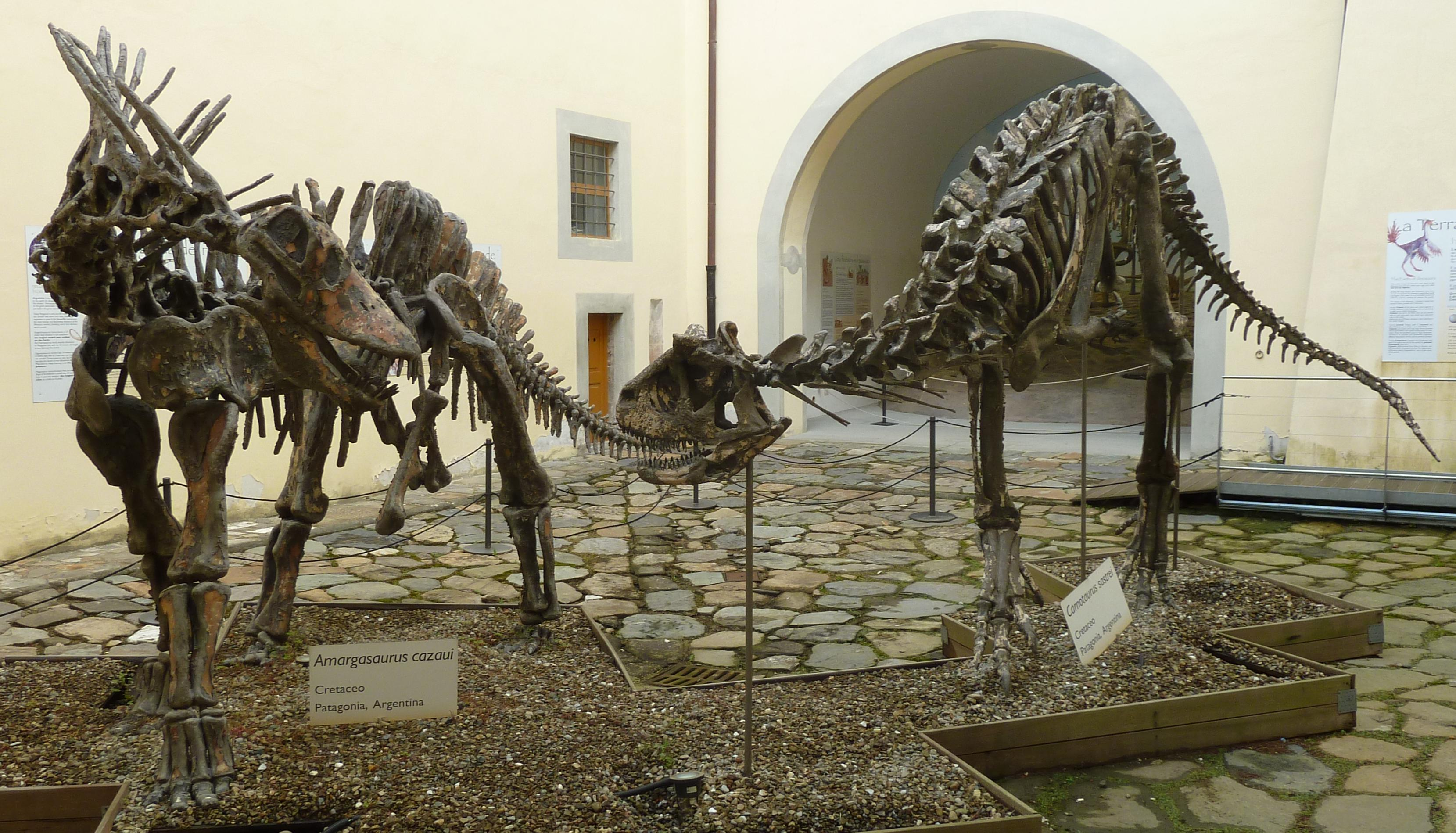 Amargasaurus cazaui and Carnotaurus sastrei Calci